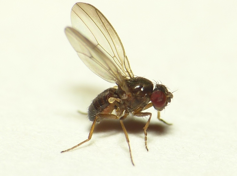 Drosophila tristis, location: The Netherlands - Rhenen - Blauwe Kamer - Gelderland